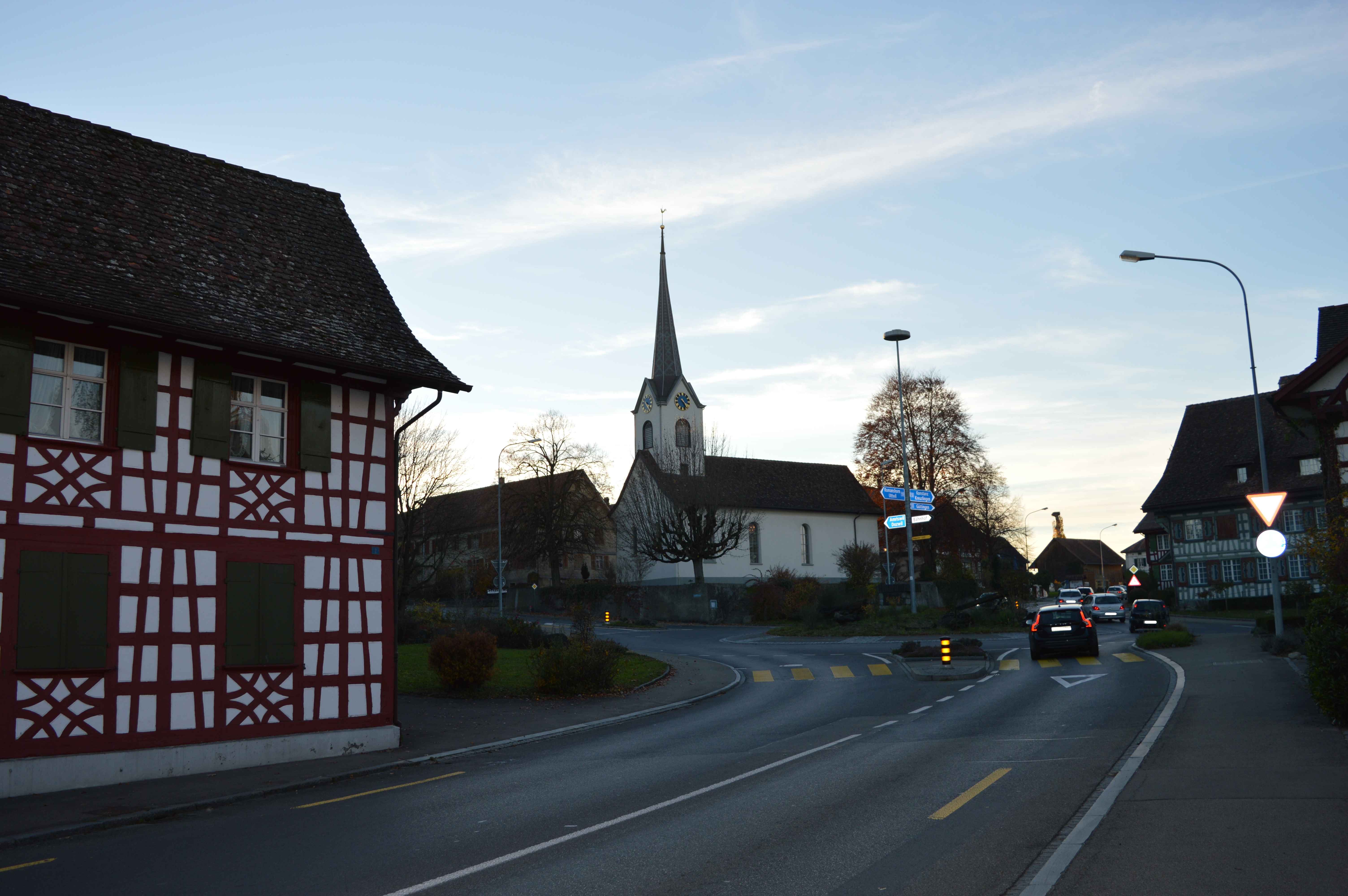 Church of Kesswil, canton of Thurgovia, Switzerland